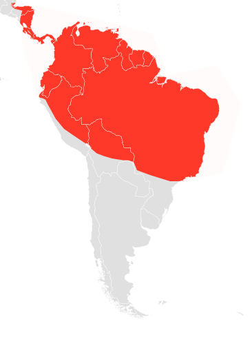 Distribution of Phyllostomus hastatus